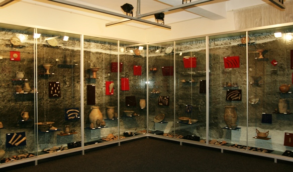 Muzeul de istorie Roman (piese găsite la Zargedava)